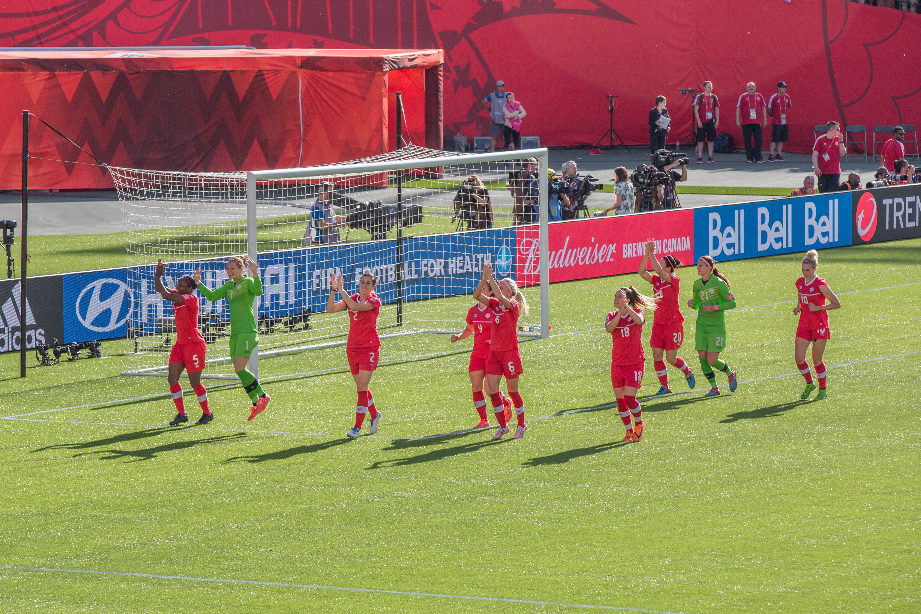 Canada players celebrate win over China